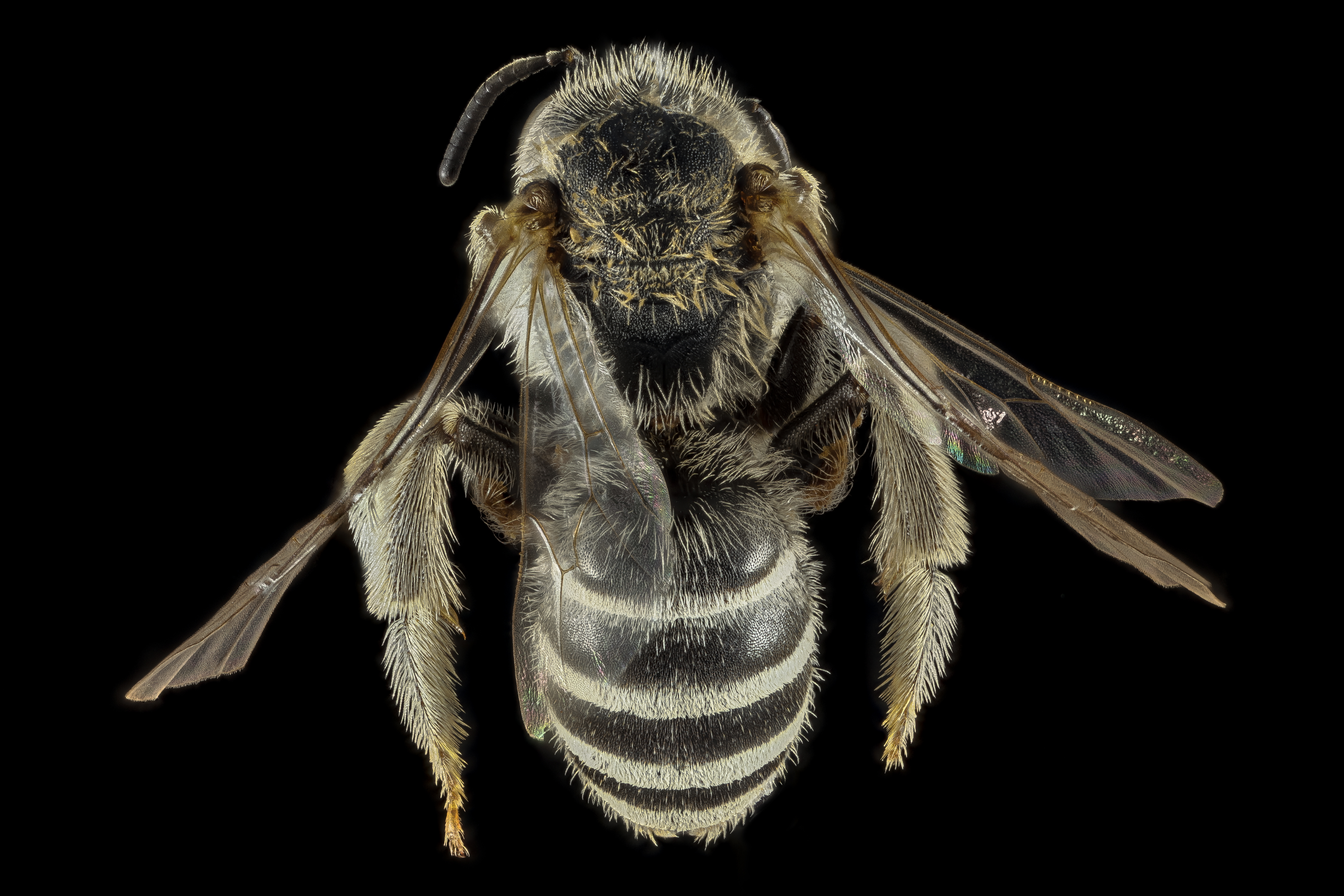 From the Aegean Islands of Greece comes what is most likely the most common Halictus in the region. Collected by Jelle Devalez. 02:59, 11 April 2016 (UTC)02:59, 11 April 2016 (UTC) 0 02:59, 11 April 2016 (UTC)02:59, 11 April 2016 (UTC) All photographs are public domain, feel free to download and use as you wish. Photography Information: Canon Mark II 5D, Zerene Stacker, Stackshot Sled, 65mm Canon MP-E 1-5X macro lens, Twin Macro Flash in Styrofoam Cooler, F5.0, ISO 100, Shutter Speed 200 Beauty is truth, truth beauty - that is all Ye know on earth and all ye need to know " Ode on a Grecian Urn" John Keats You can also follow us on Instagram account USGSBIML Want some Useful Links to the Techniques We Use? Well now here you go Citizen: Art Photo Book: Bees: An Up-Close Look at Pollinators Around the World Basic USGSBIML set up: USGSBIML Photoshopping Technique: Note that we now have added using the burn tool at 50% opacity set to shadows to clean up the halos that bleed into the black background from "hot" color sections of the picture. PDF of Basic USGSBIML Photography Set Up: ftp://ftpext.usgs.gov/pub/er/md/laurel/Droege/How%20to%20Take%20MacroPhotographs%20of%20Insects%20BIML%20Lab2.pdf Google Hangout Demonstration of Techniques: or Excellent Technical Form on Stacking: Contact information: Sam Droege 301 497 5840